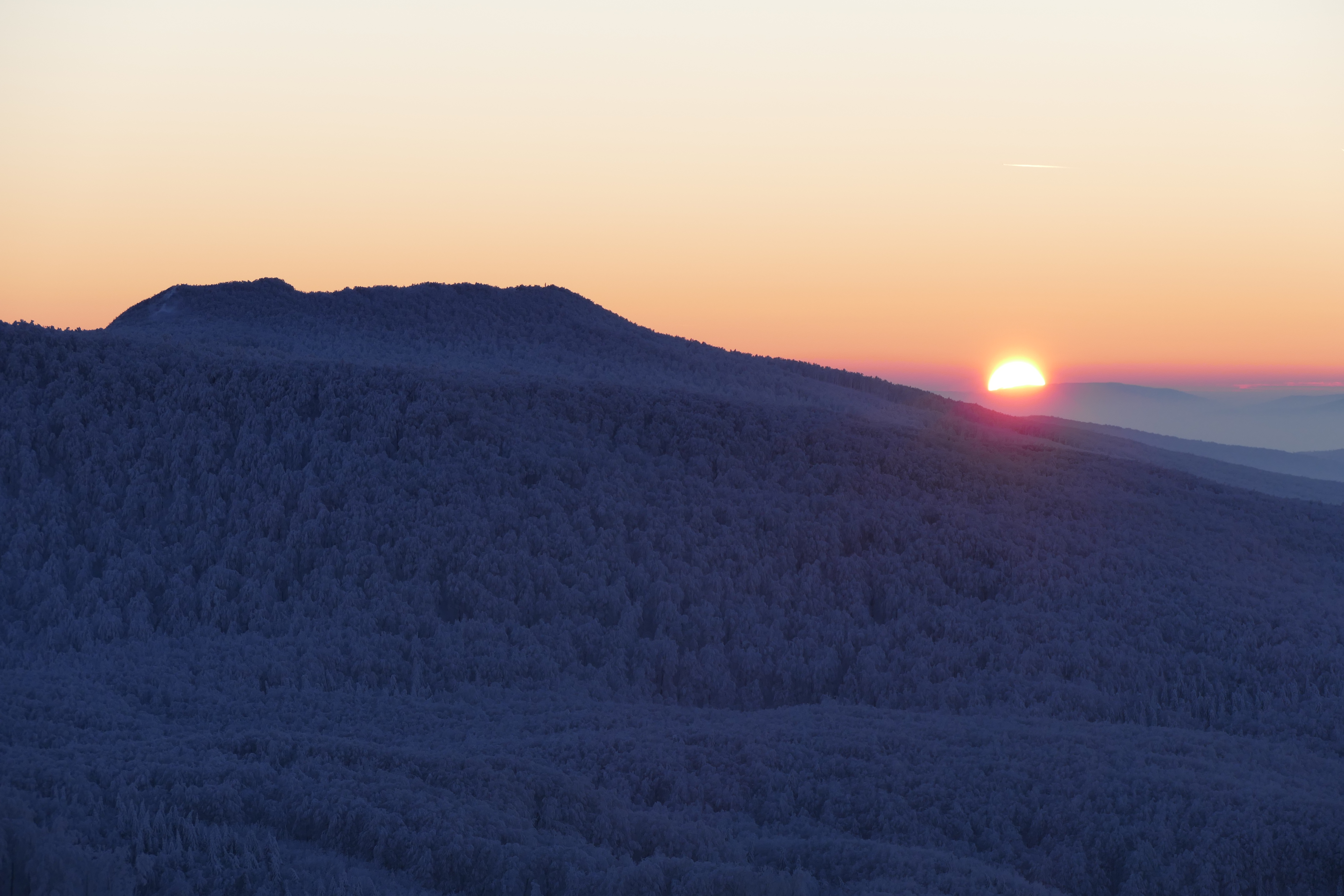 View of Vihorlat from Sninský kameň at sunset This is a photography of Natura 2000 protected area with ID SKUEV0209 This is a photography of Natura 2000 protected area with ID SKUEV0025